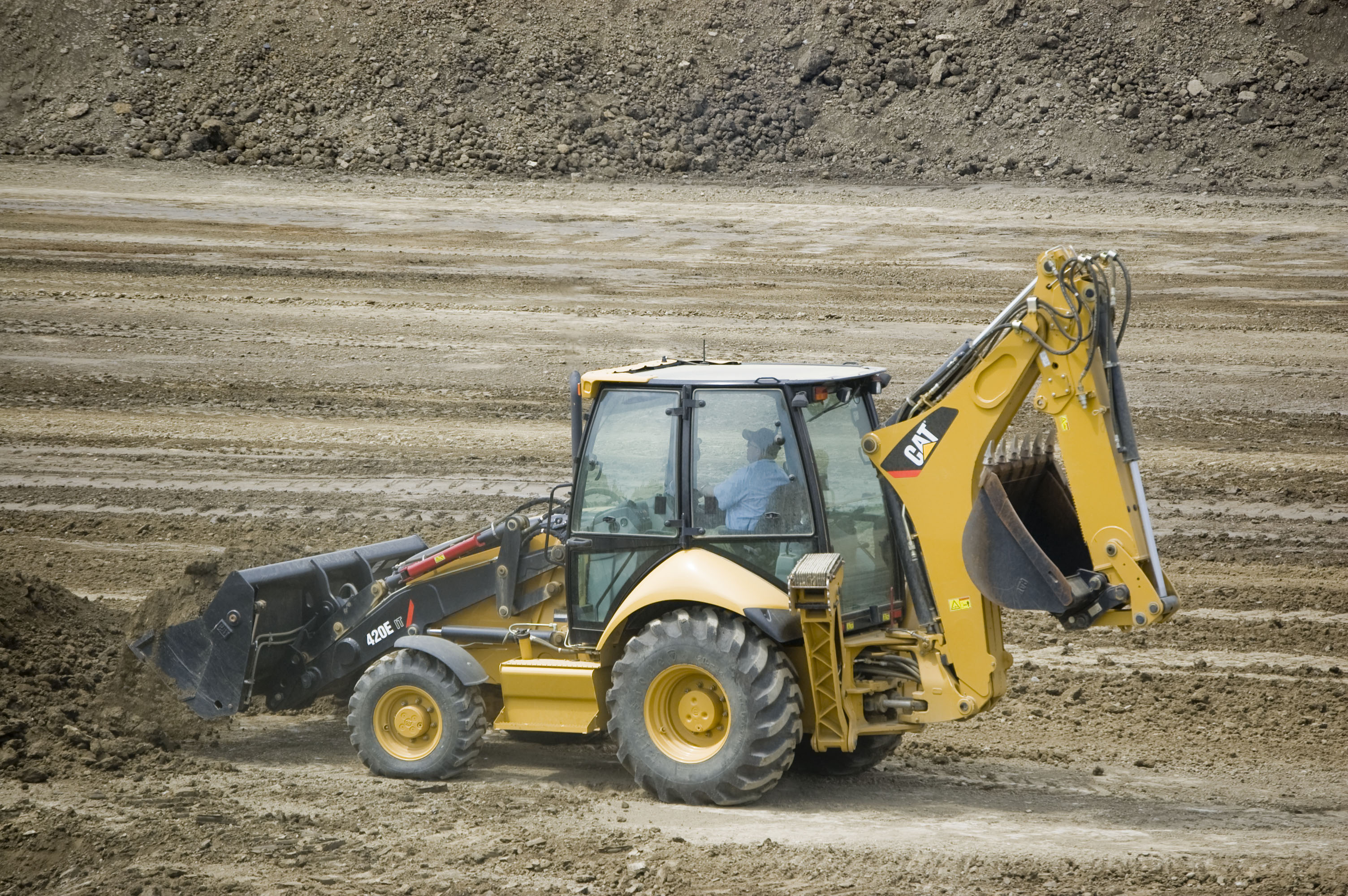 Caterpillar 420E IT backhoe loader, left side